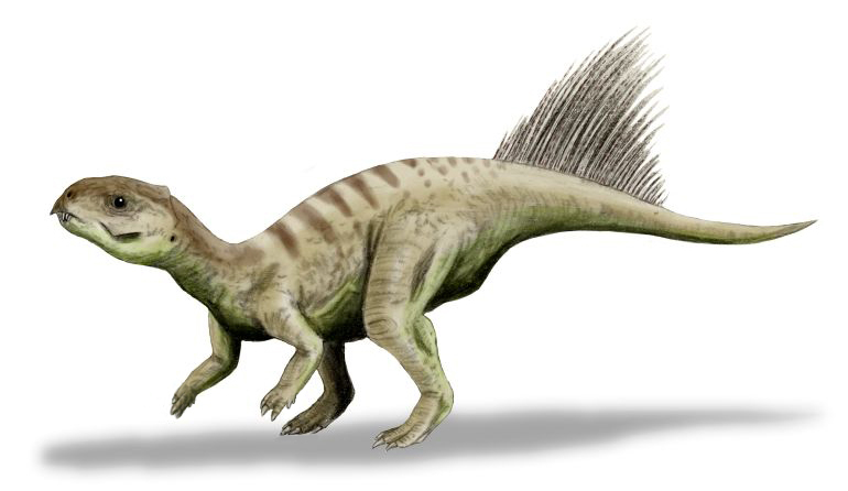 Chaoyangsaurus youngi, a basal ceratopsian from the Late Jurassic of China, the reconstruction is highly speculative as only the lower jaw, the lower part of the upper jaw, a few vertebrae and bits of the forearm are known; pencil drawing, digital coloring